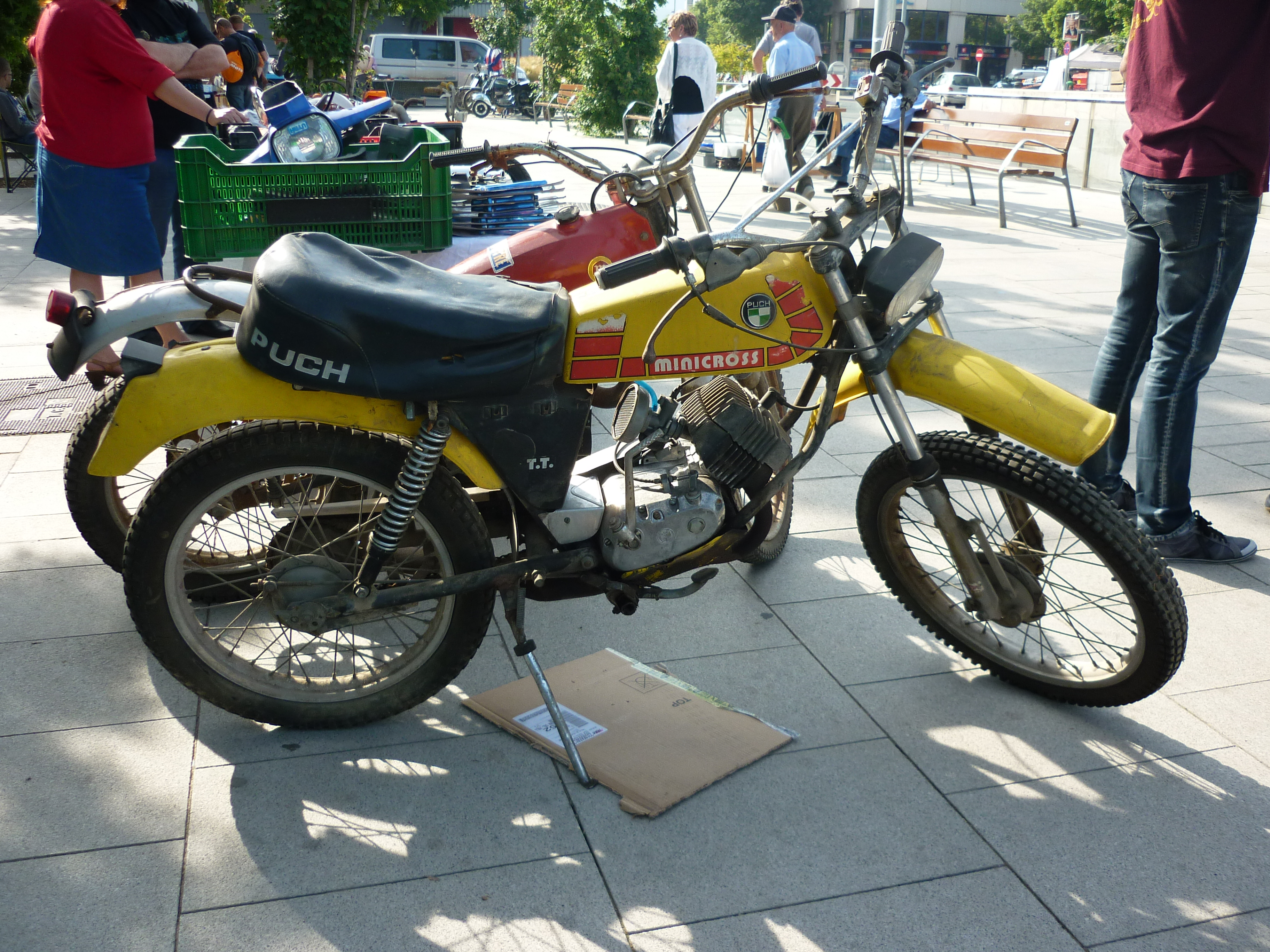 Puch Minicross TT 50cc by 1980